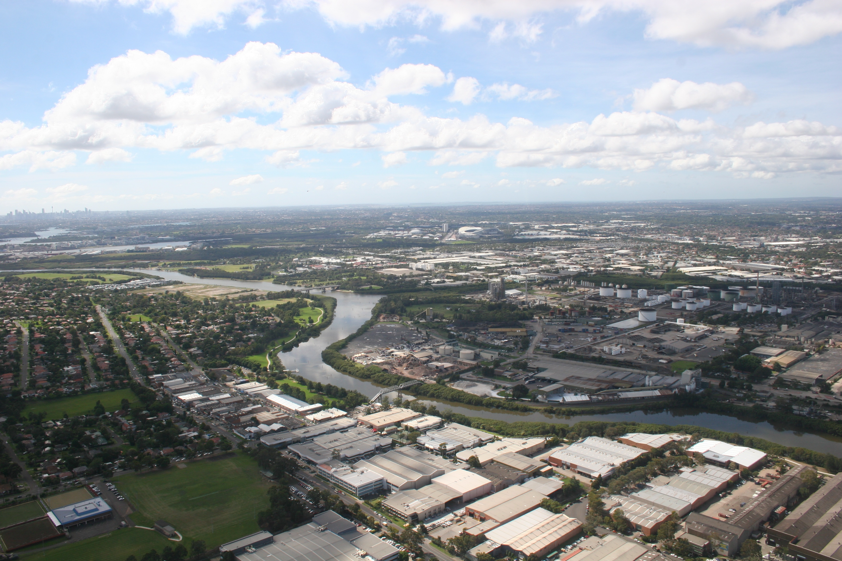 Aerial photograph of the Parramatta River at Rosehill.